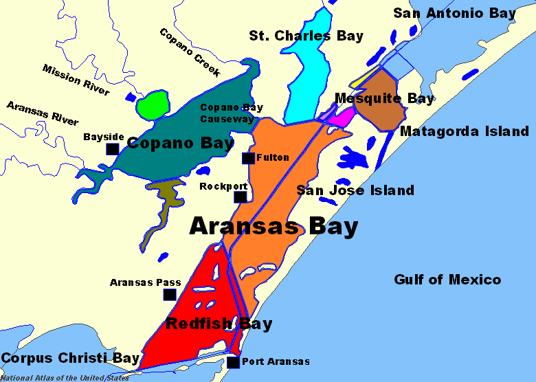 Map of Aransas Bay